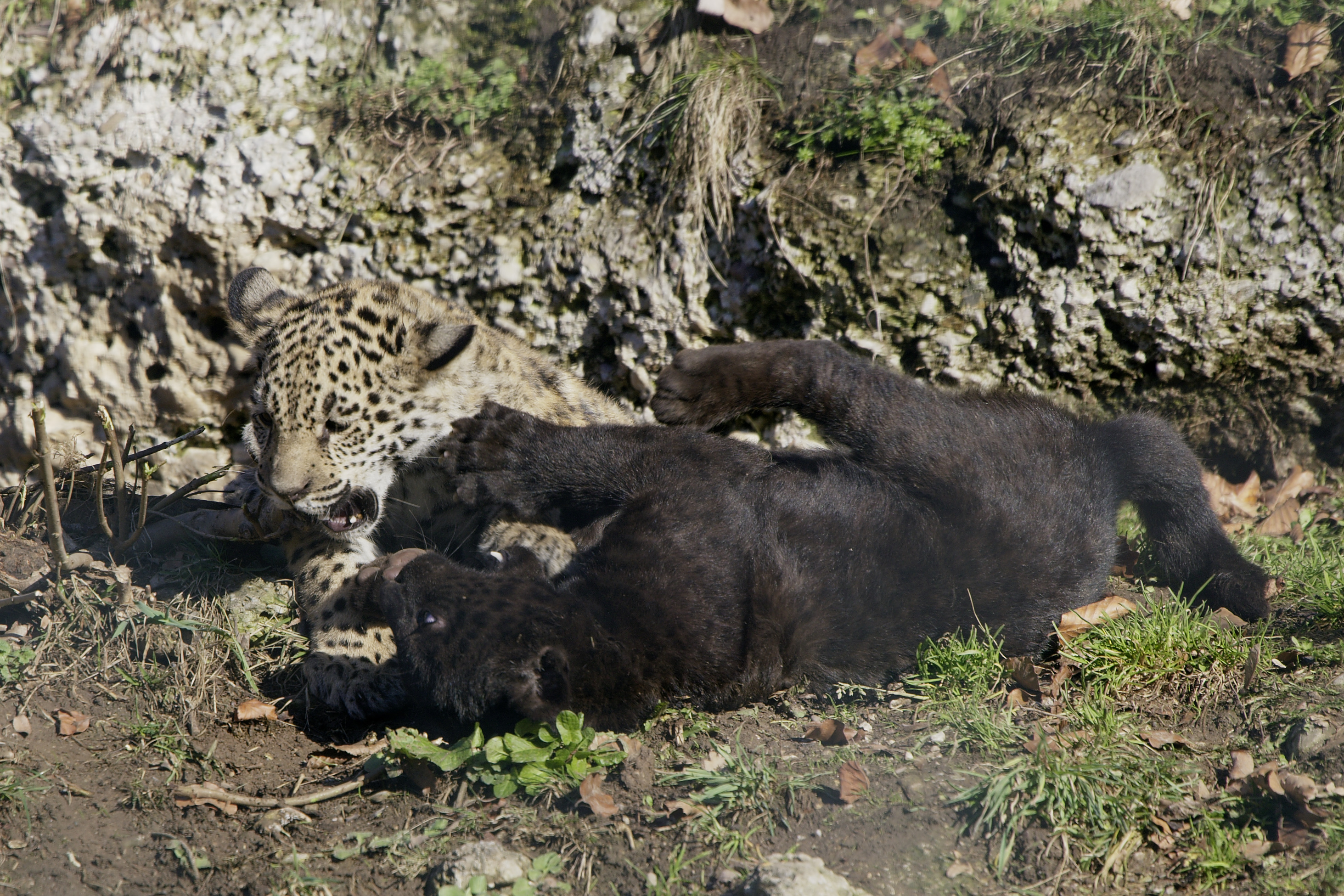 Young (4 months) jaguars at zoo Salzburg. Born at 2009-08-31 photographed at 2009-12-26